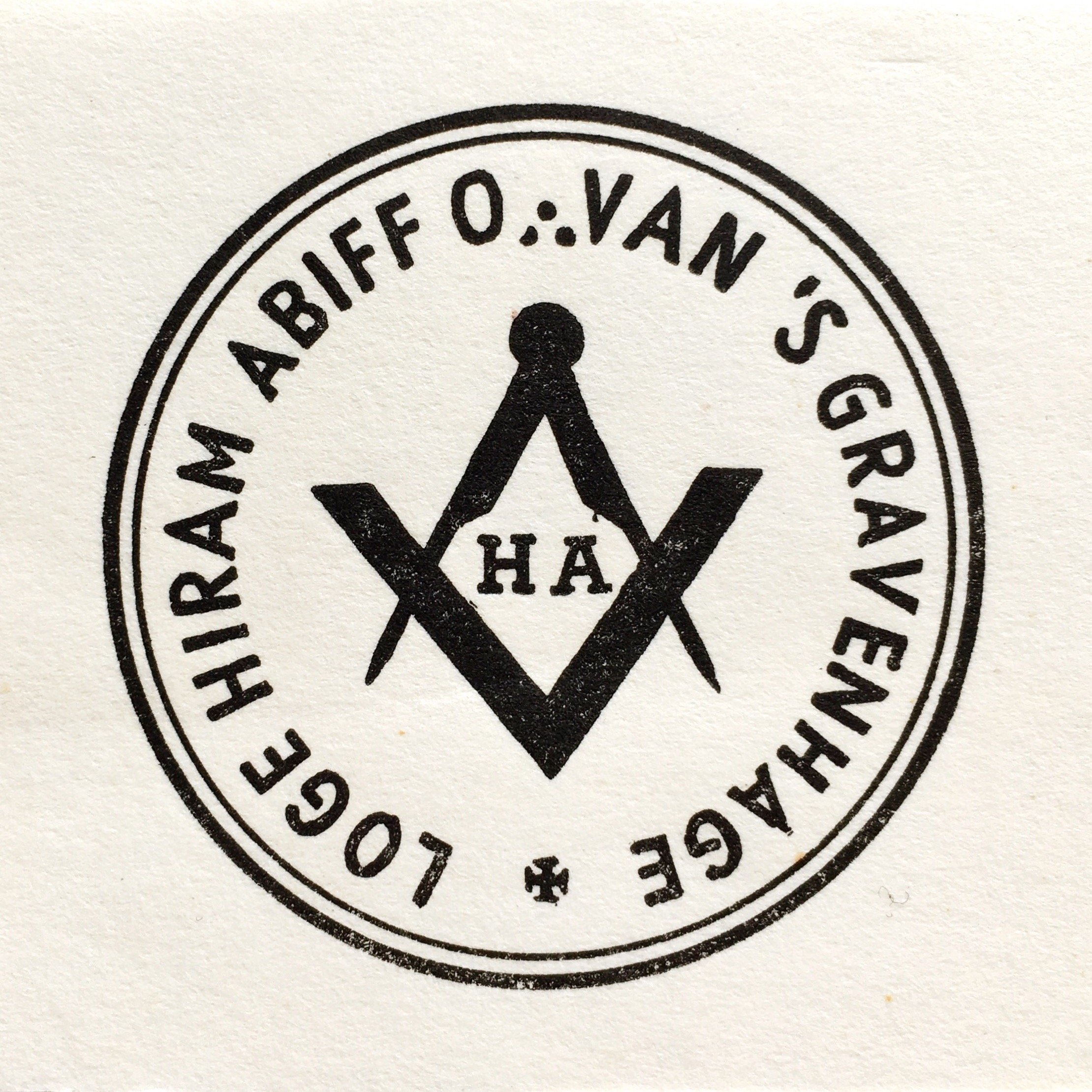 Seal of a Dutch Masonic Lodge